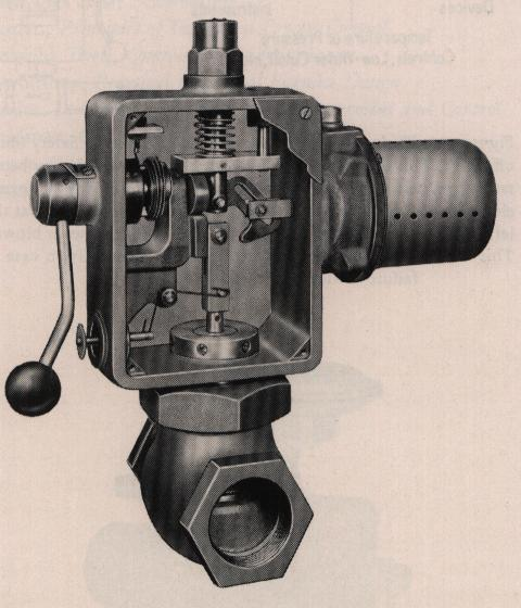 64px|Public domain }